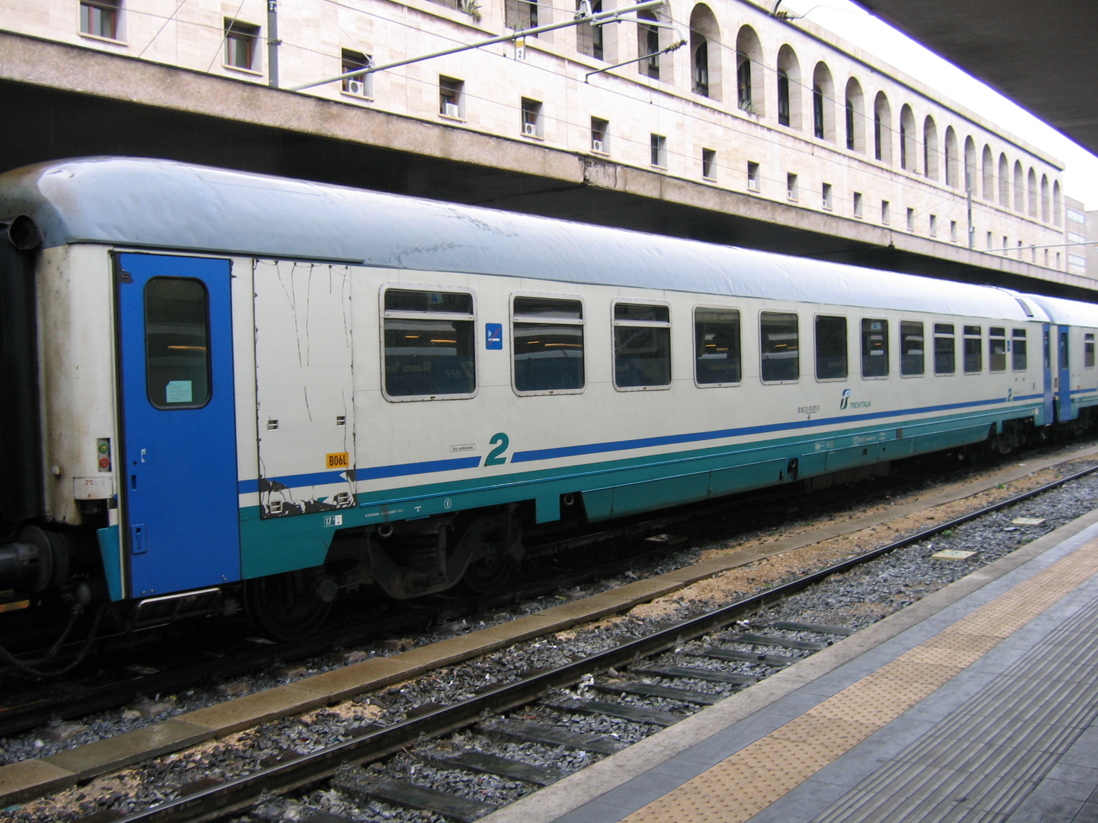 UICX coach in Roma Termini train station. Author: Jollyroger. 2 june 2006